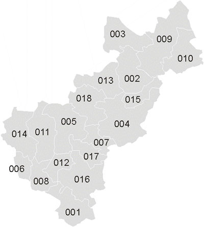 Map of the Municipalties of the State of Querétaro, México.